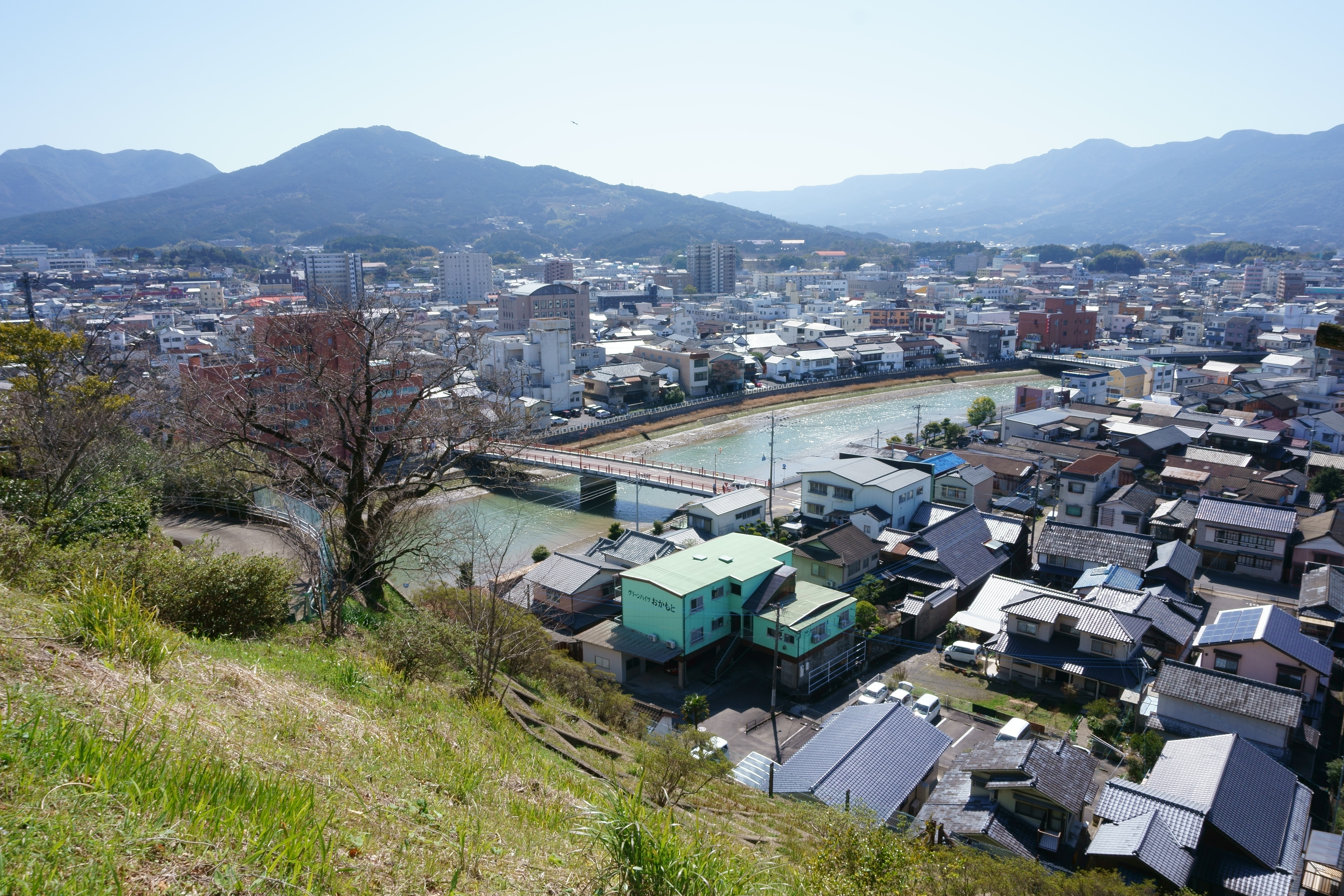 Centre of Imari city in Saga prefecture. It was taken from Jōyama Park.